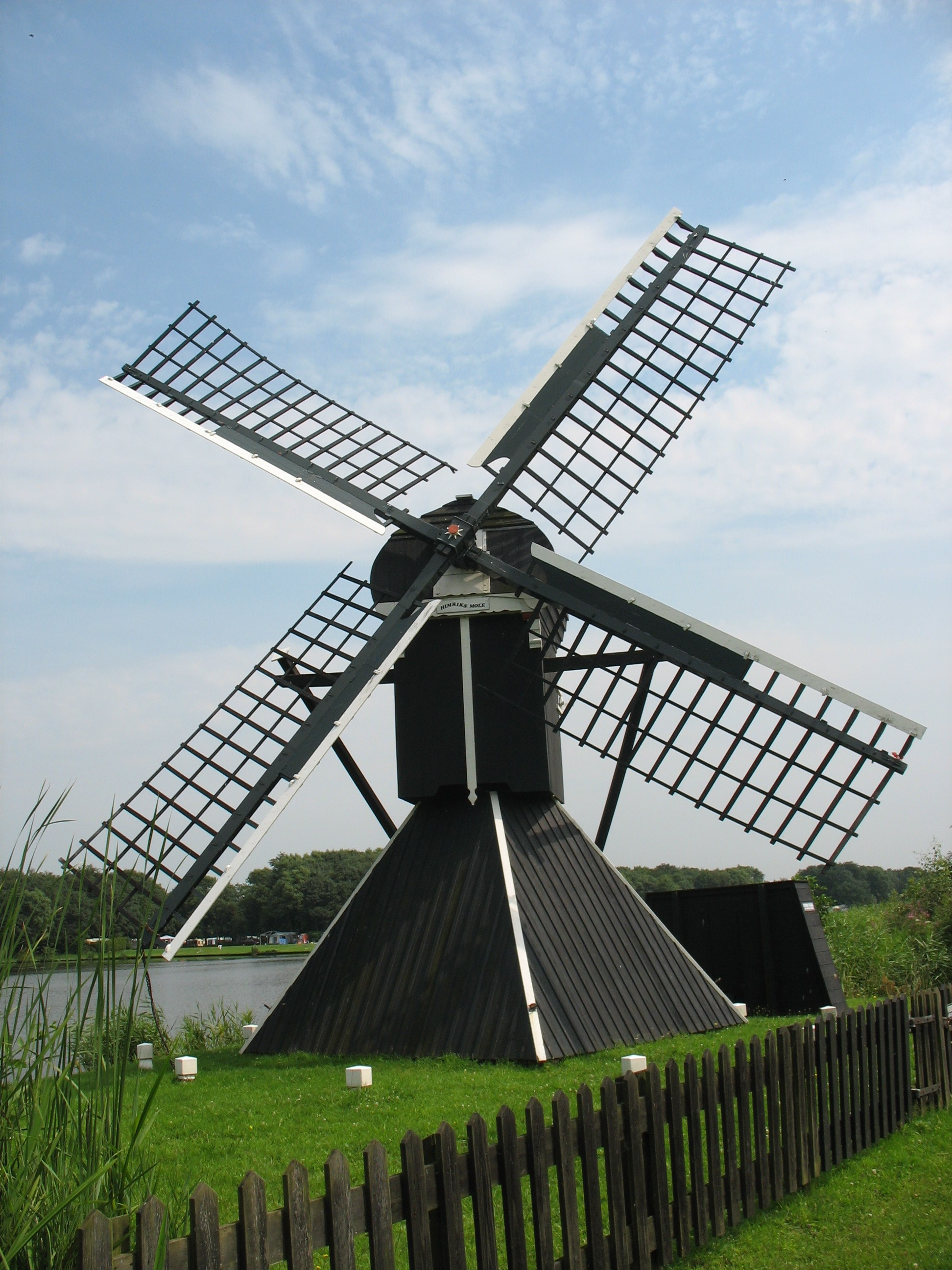 Windmill the Hemriksmolen